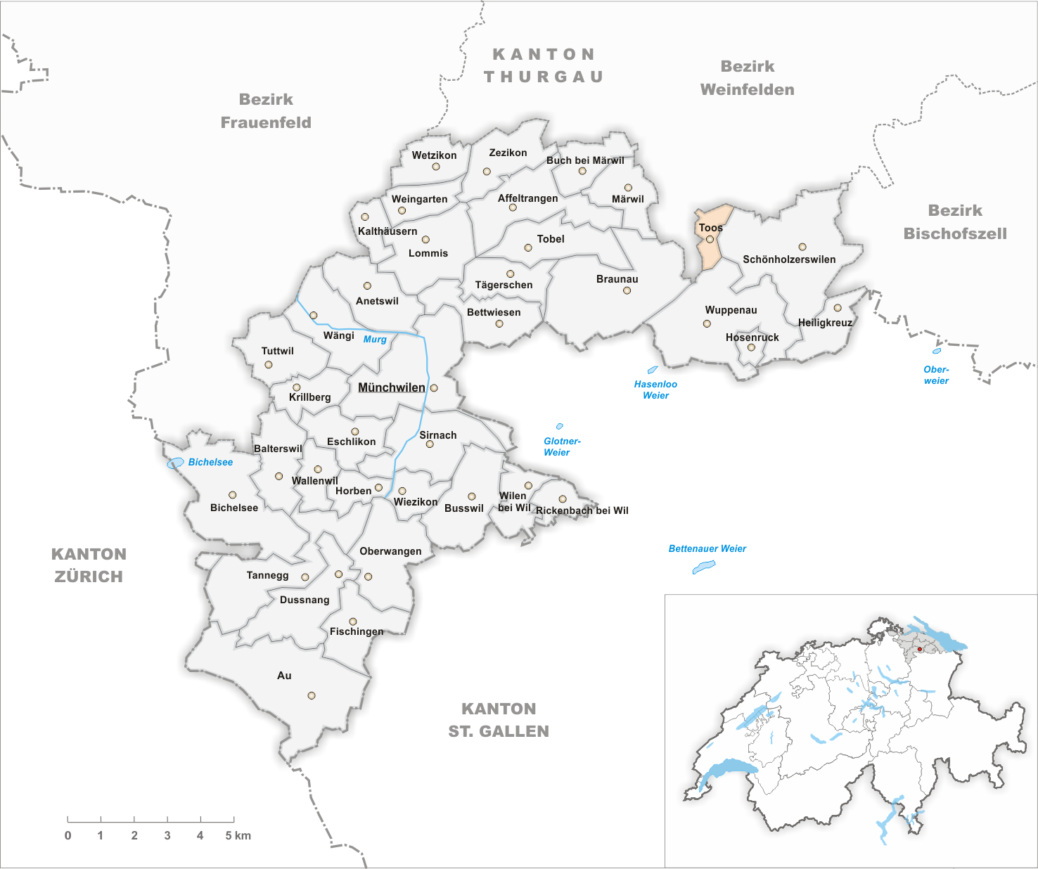 Municipality Toos